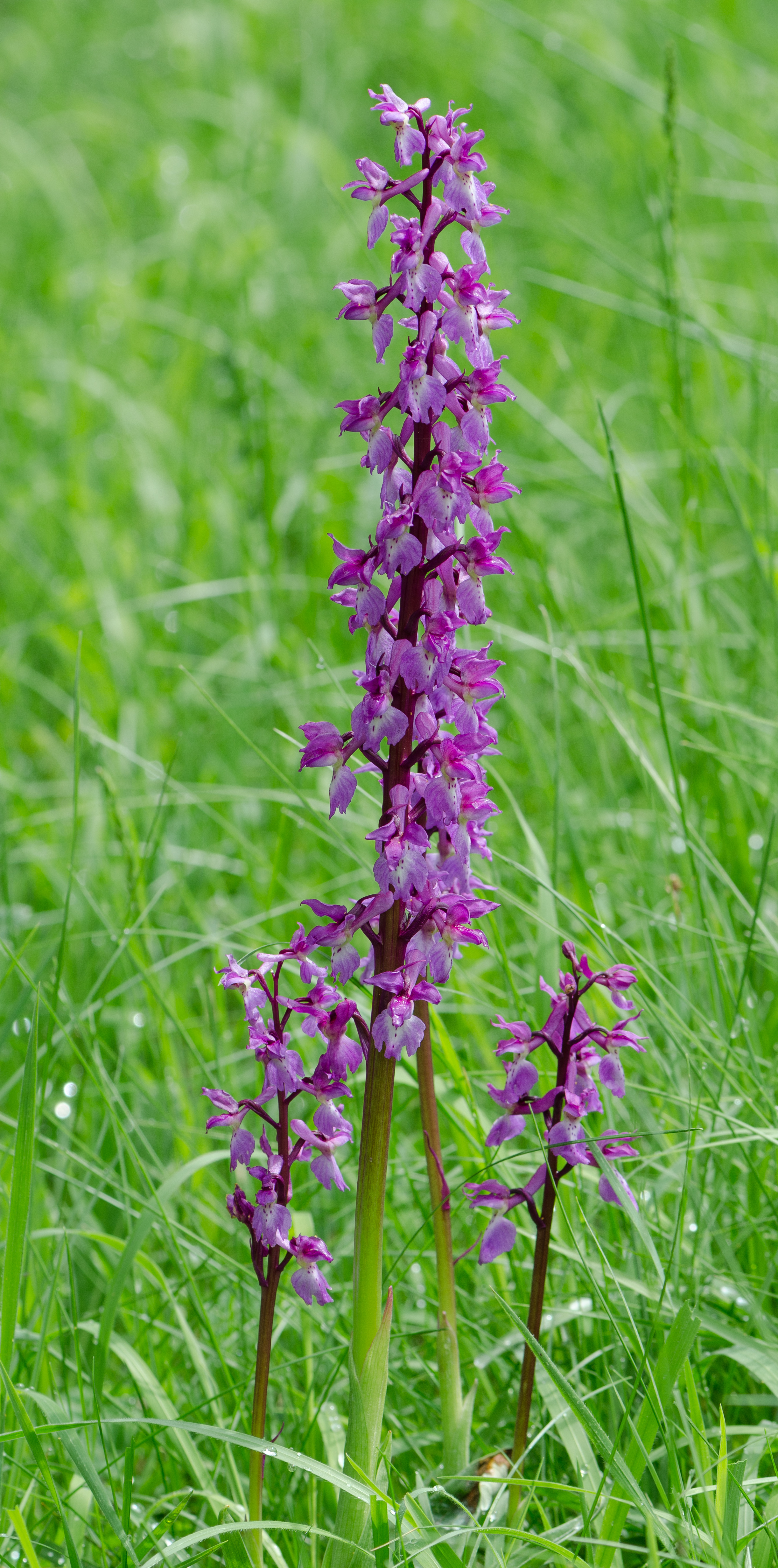 Orchis mascula (the early purple orchid)